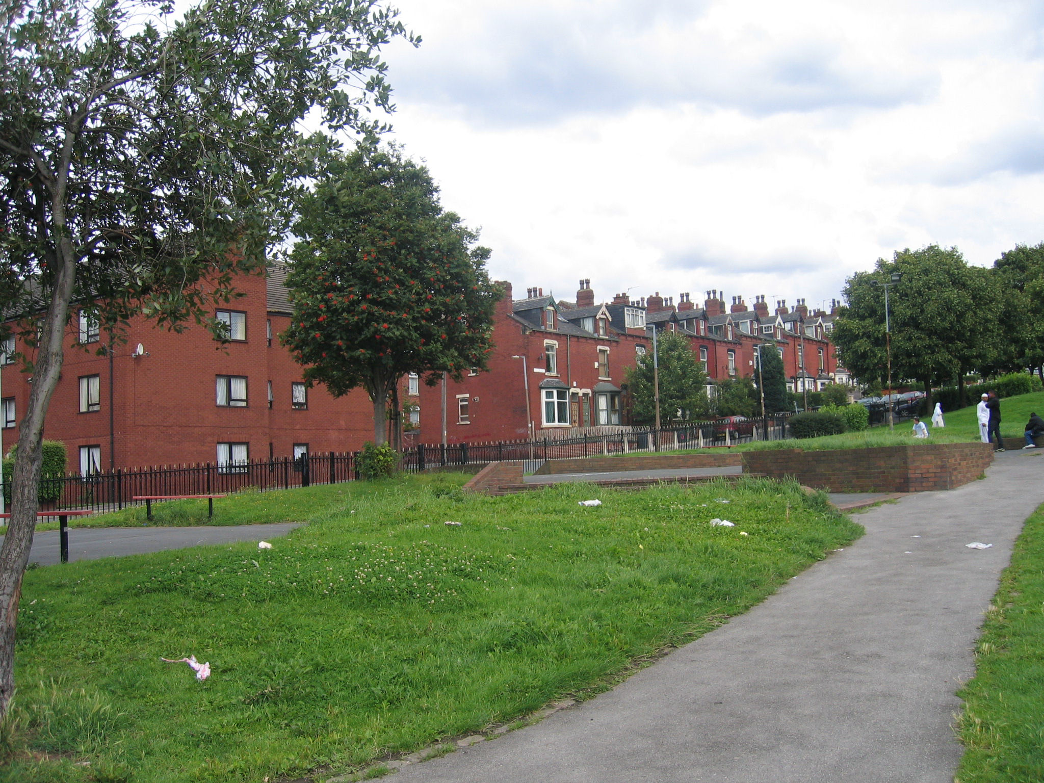 Banstead Park, Harehills, Leeds LS8 West Yorkshire